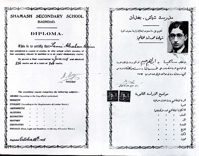 Sami Haim diploma of the Shamash Secondary School, Baghdad, Iraq 1935. (Beth Hatefutsoth Photo Archive, courtesy of Sami Haim, Israel)